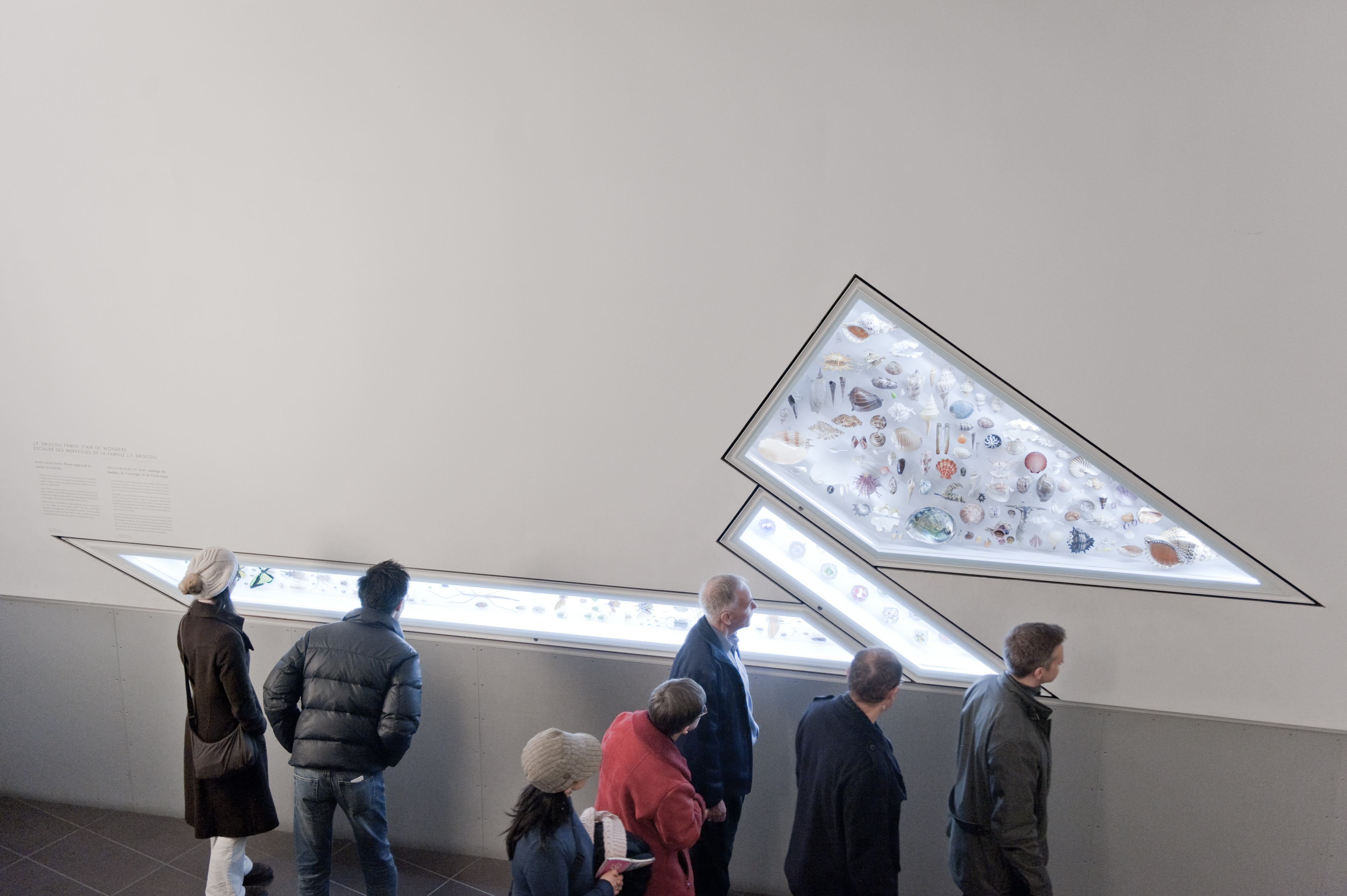 Interior of the Royal Ontario Museum. Toronto, Canada.